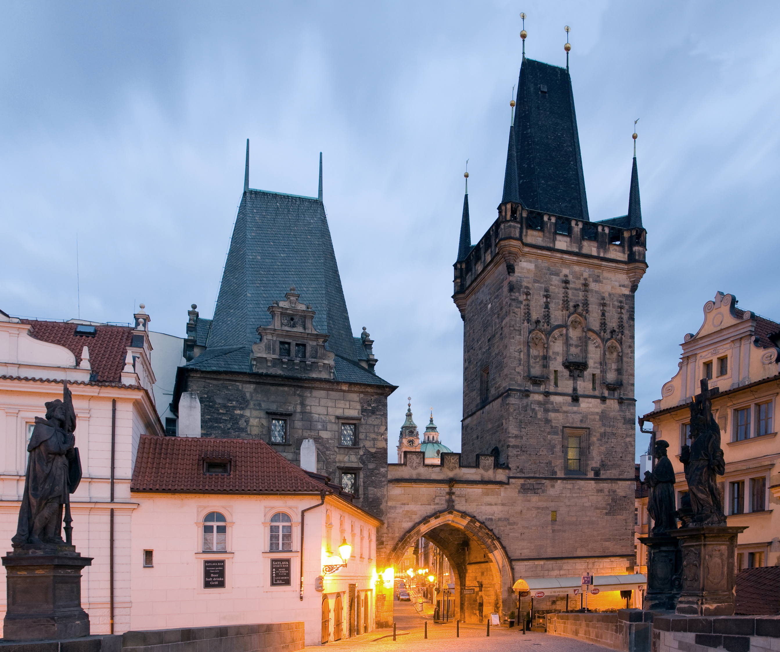 A view of the bridge tower at the end of the Charles Bridge on the side of Malá Strana in Prague, Czech Republic.